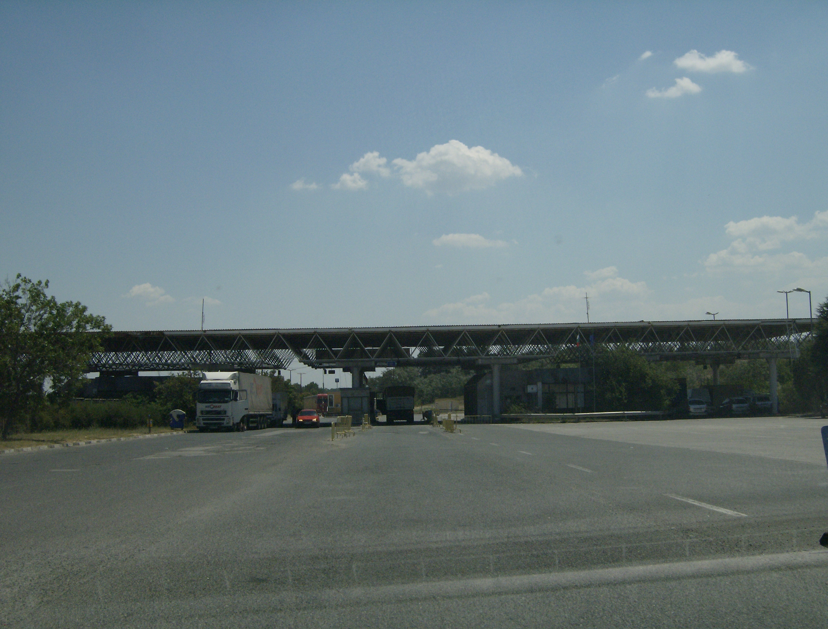 Kapitan Petko - Ormeni Border Check Point